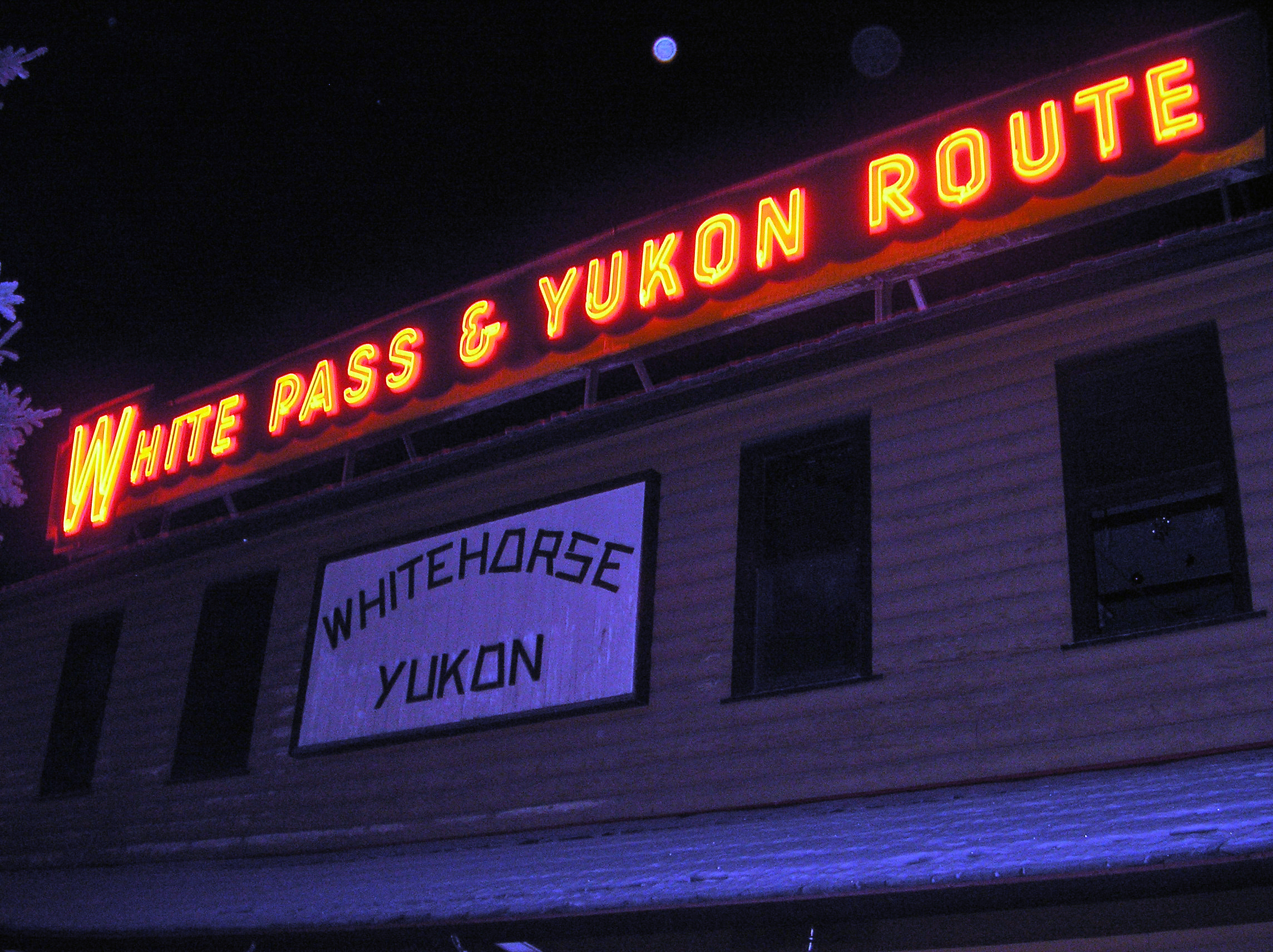 The White Pass and Yukon Route train station in Whitehorse, Yukon Territory, Canada houses the Whitehorse offices of Yukon Quest International and is the starting point for the annual sled dog race.